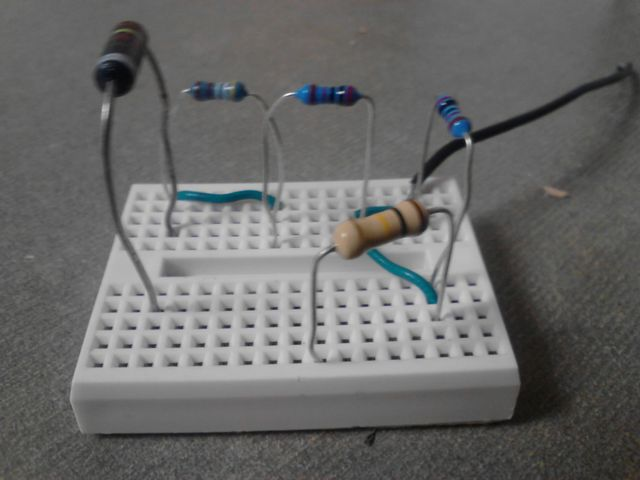 title says it all